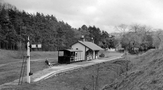 Blagdon Station, converted to private house. View southward, towards former buffer-stops; ex-GW terminus of branch from Congresbury, closed 14/9/31 to passengers, 1/11/50 to goods. My wife (seated) and I met the present owner, who welcomed my photographing his nicely preserved station.